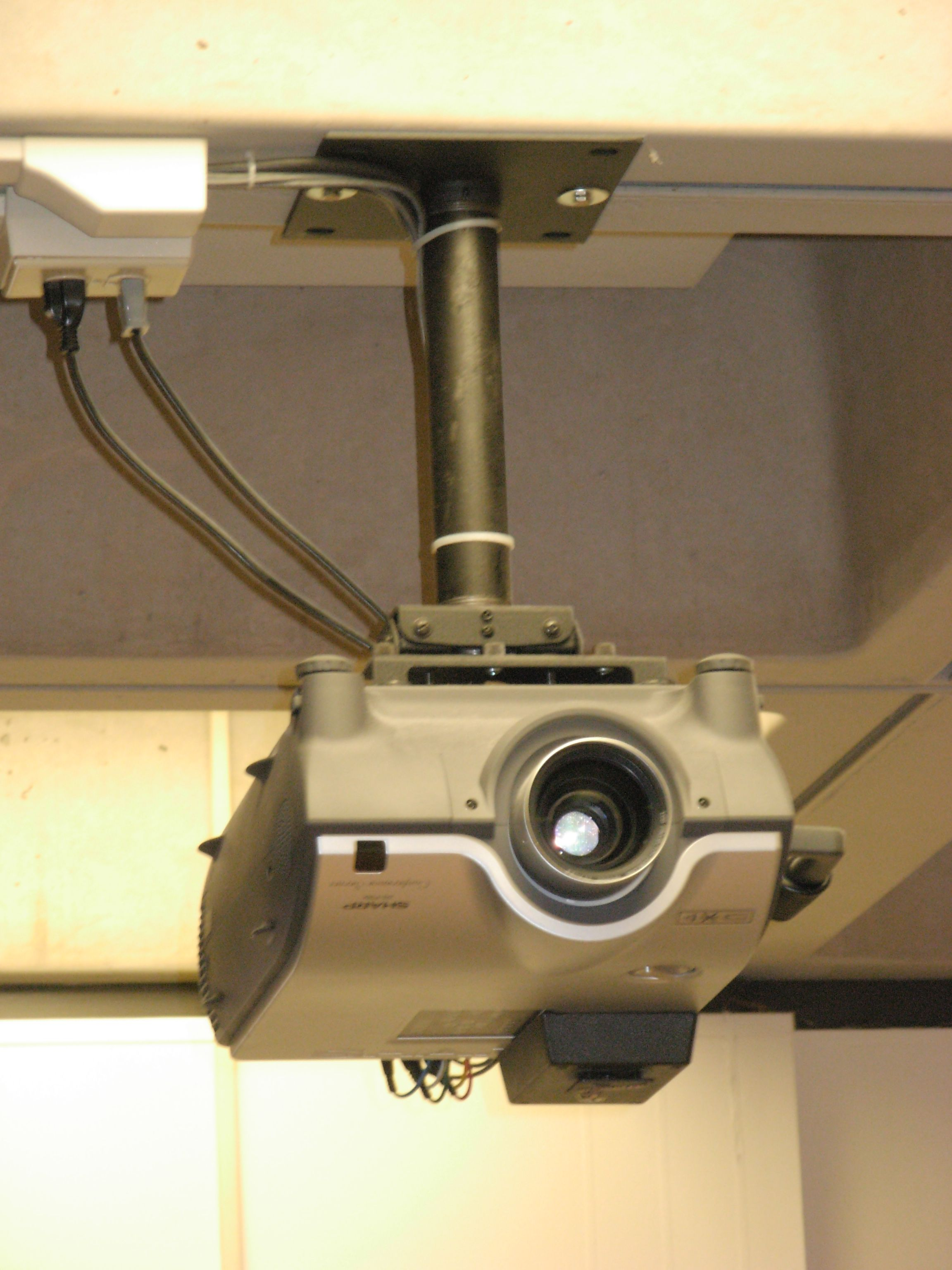 Sharp ceiling projector.